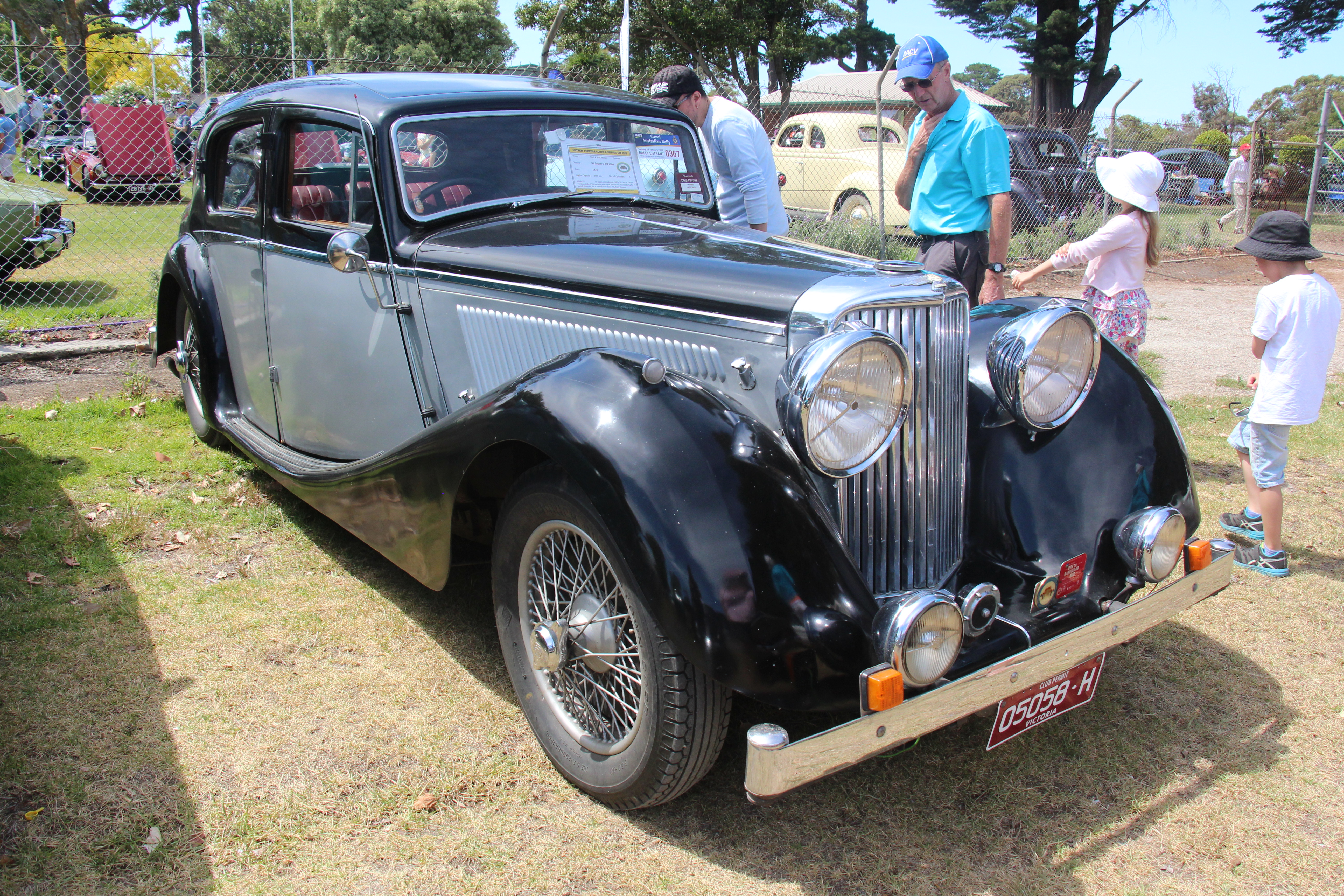 The Swallow Sidecar Company was founded in 1922 by two motorcycle enthusiasts, William Lyons and William Walmsley. In 1934 Walmsley elected to sell-out and Lyons formed S. S. Cars. The SS Jaguar name first appeared in September 1935 on a saloon that they produced, available in 1.5, 2.5 or 3.5 litre, sports models were the SS 90 and SS 100 In 1945 the name SS Cars Ltd was changed to Jaguar Cars Ltd The SS Jaguar 1.5 litre originally featured a 1608 cc side valve 4 cyl engine, but from 1938 this was replaced by a 1776 cc overhead-valve. The SS Jaguar 2.5 litre was a 2664cc 6 cyl. The SS Jaguar 3.5 litre was introduced in 1938, also a 6 cyl, 3485cc The 3 models were available in 4 door saloon or 2 door drop head coupe.